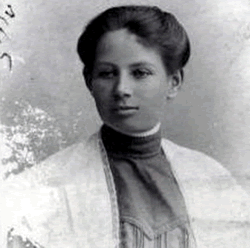 Anonymous young Eastern Europe at the beginning of the 20th century.